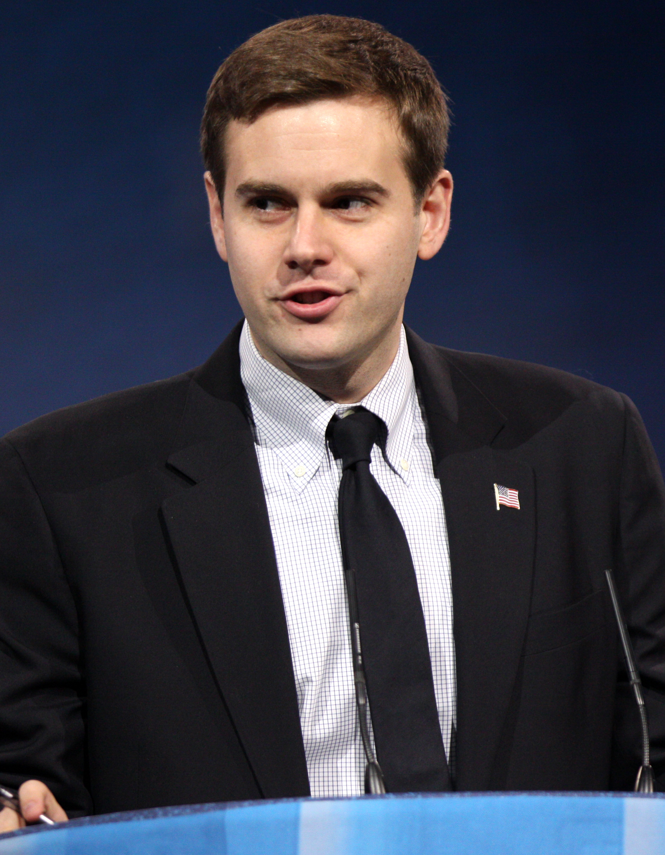 Guy Benson speaking at the 2013 CPAC in Washington D.C. on March 16, 2013.